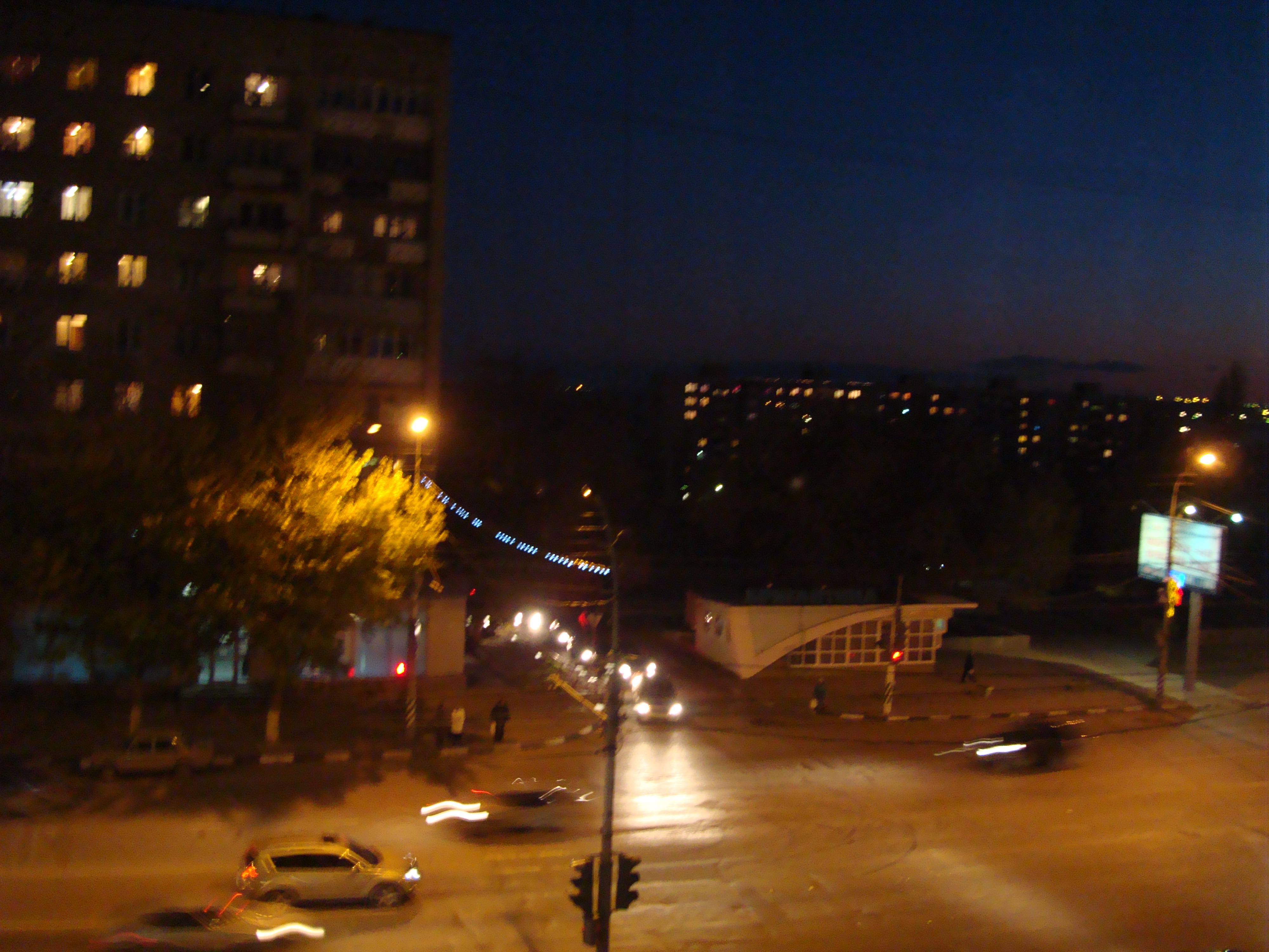 Night in Saratov